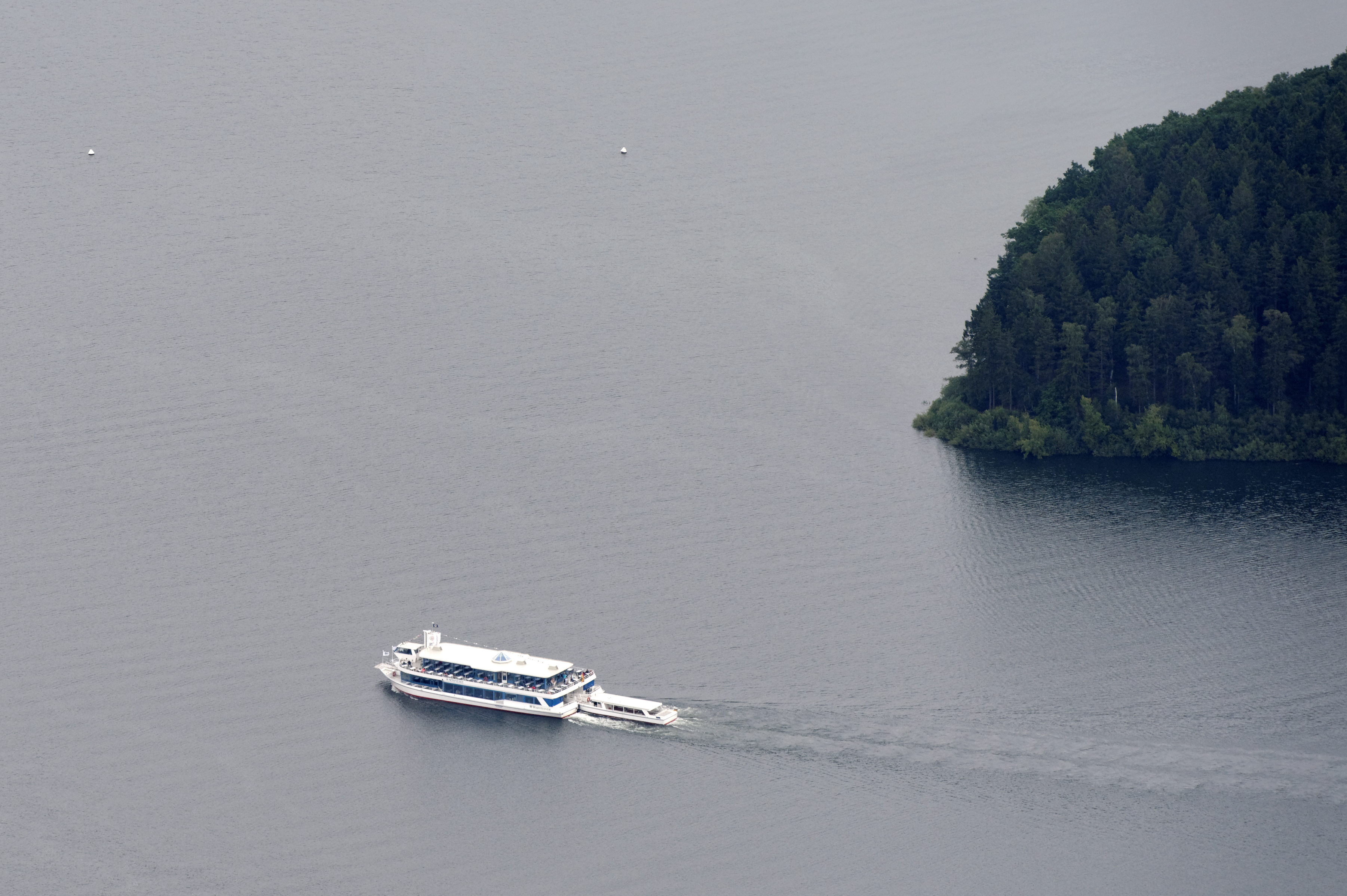 Möhnesee: Ausflugsschiff Möhnesee gekoppelt mit Körbecke auf dem Möhnesee (Fotoflug Sauerland Nord) The making of this document was supported by the Community-Budget of Wikimedia Germany.